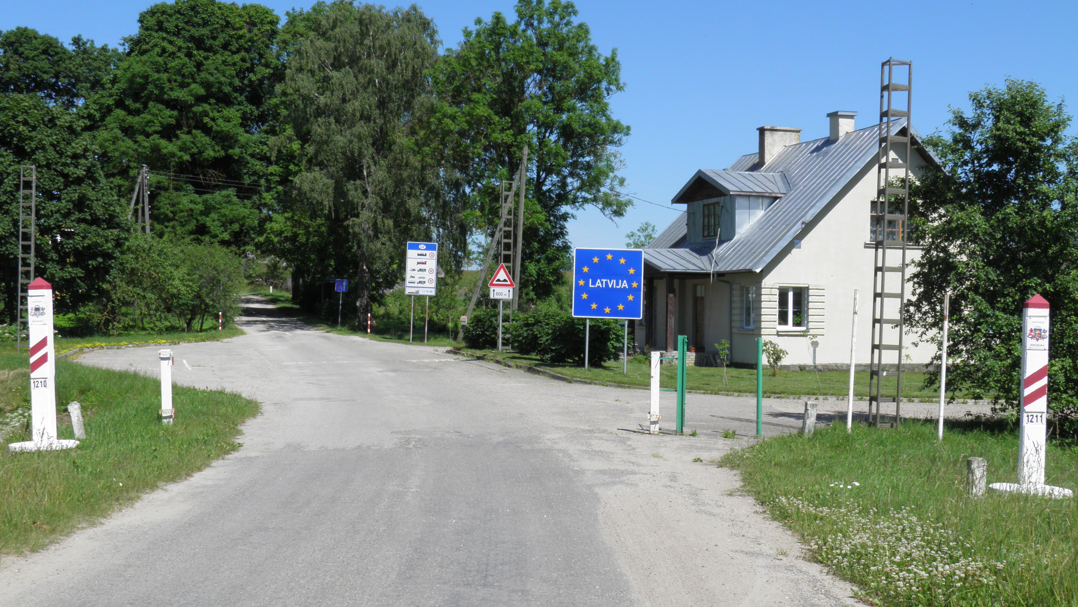 border